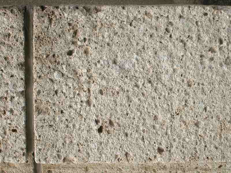 A wall of Oya tuff bricks, in Japan.